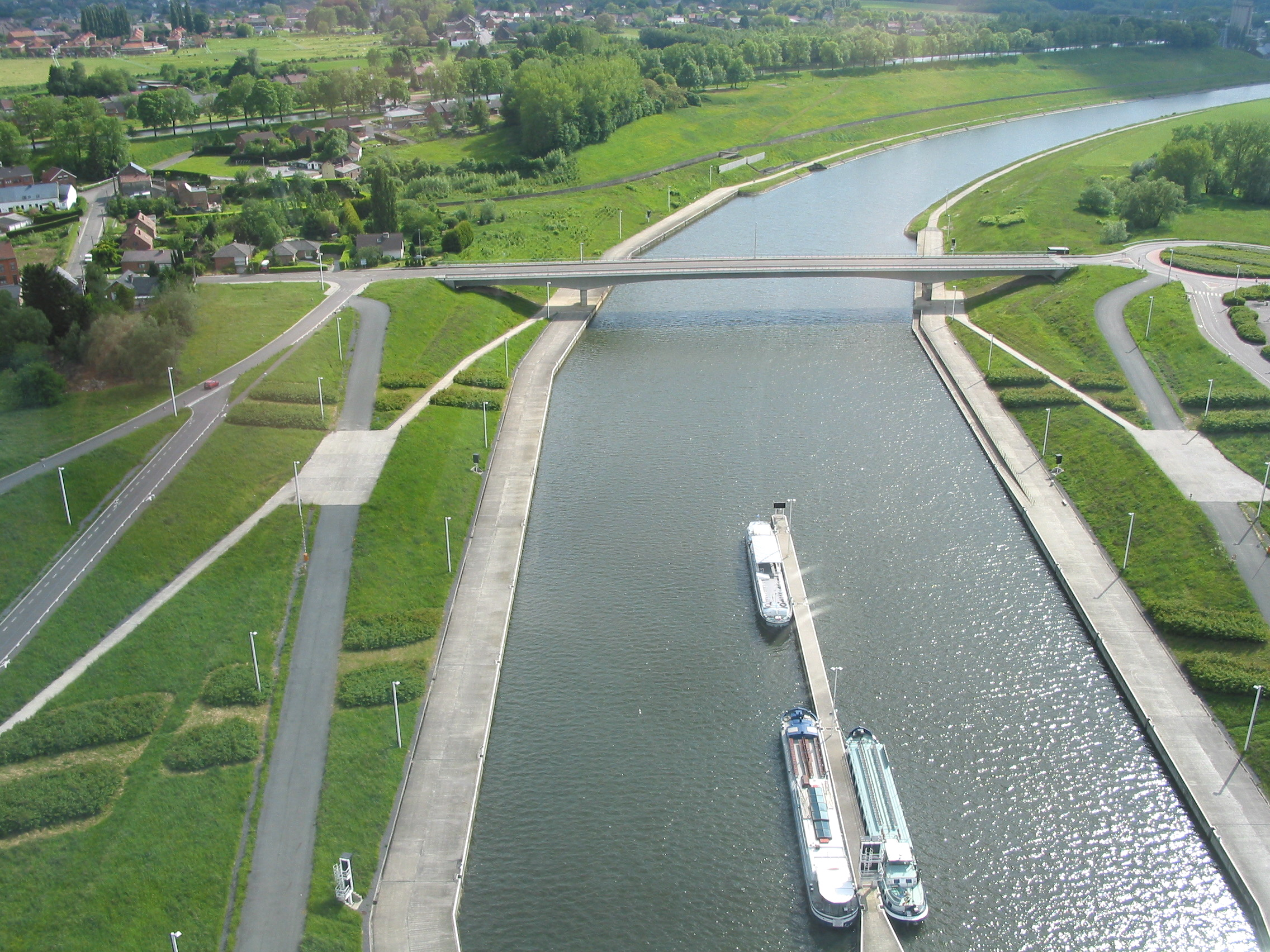 Strépy Bracquegnies (Belgium), panorama on the "Canal du Centre" shot from the ship elevator tower.